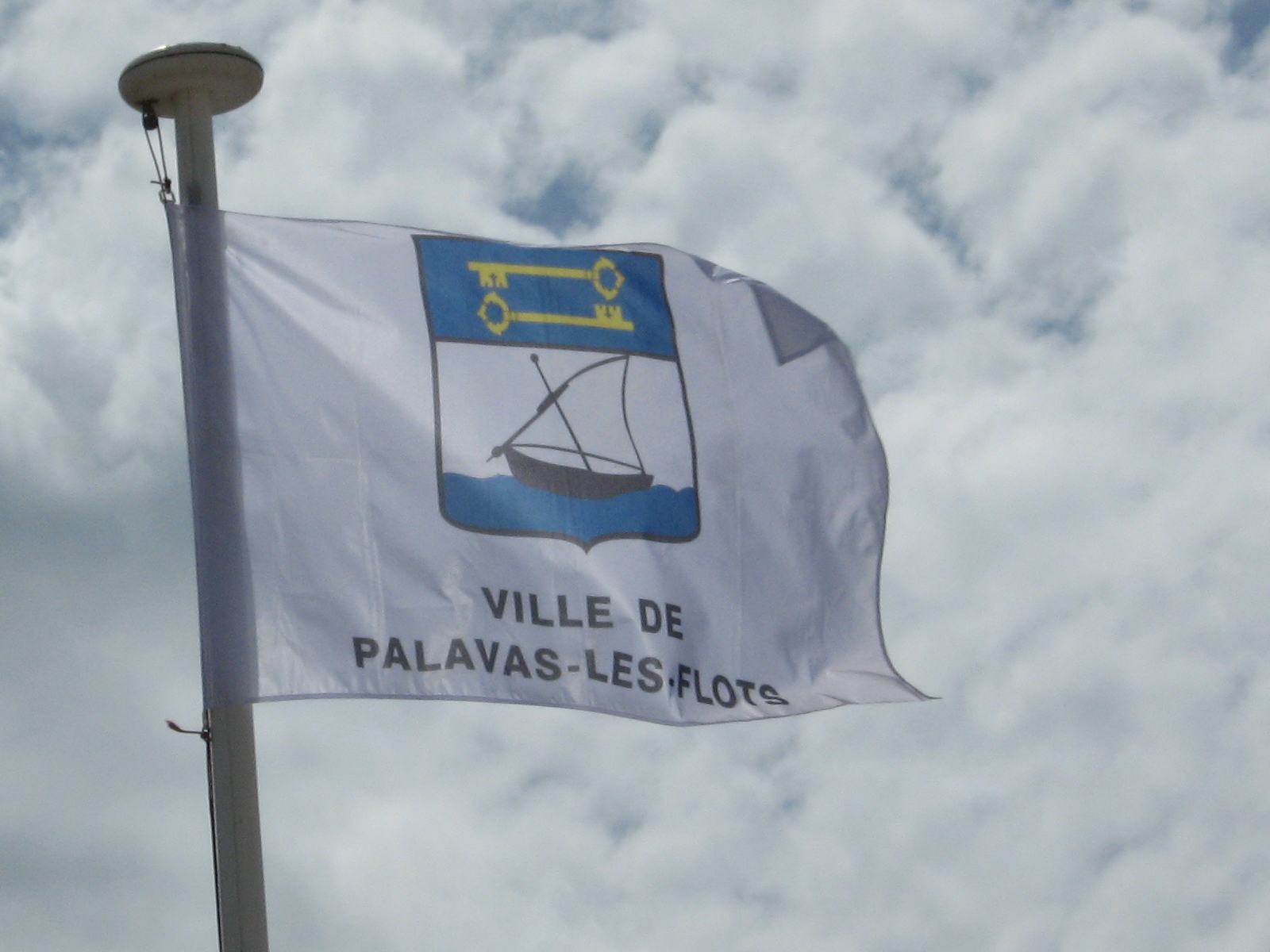 flag of the city of Palavas-les-Flots (France)